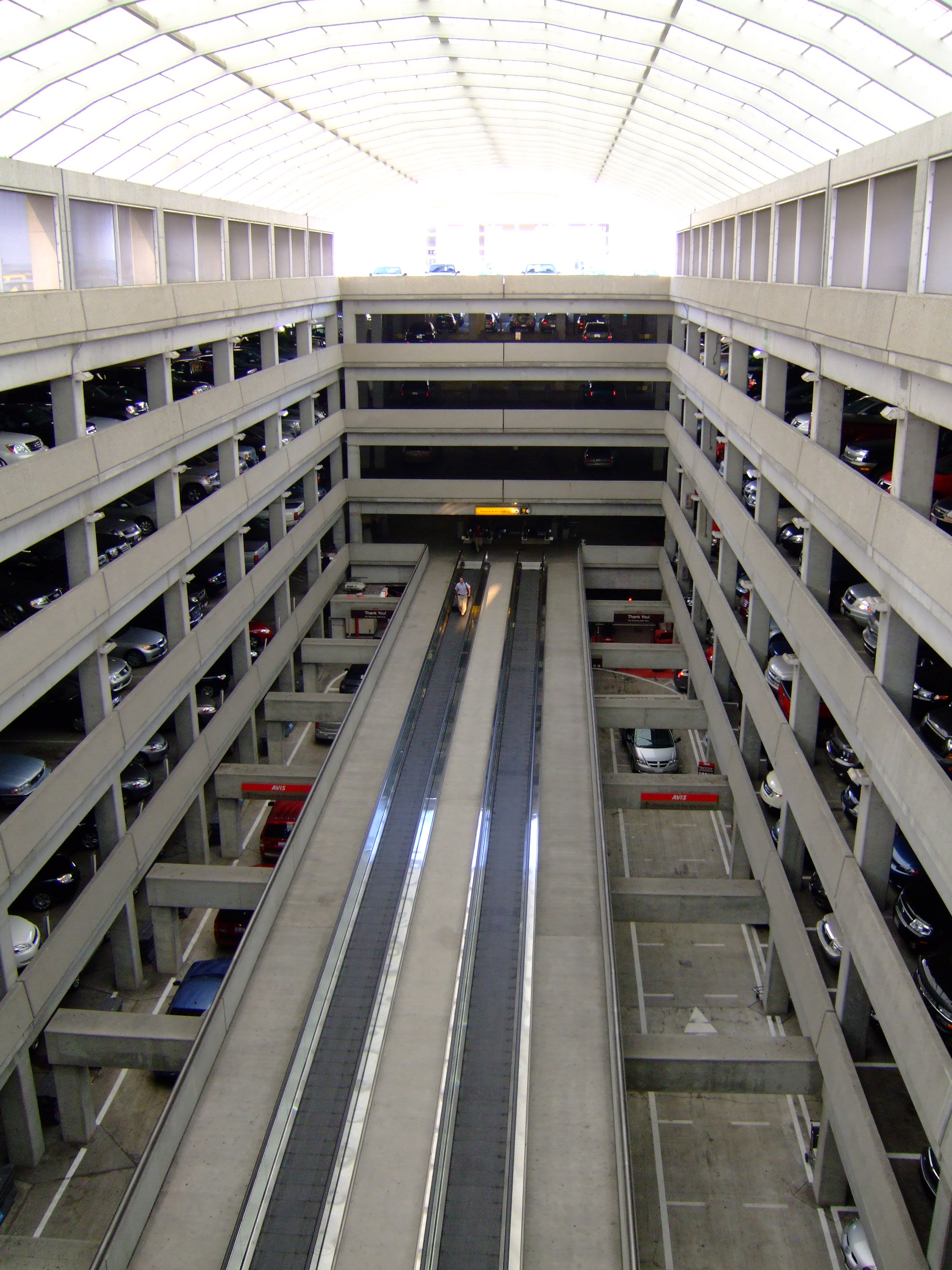 A moving walkway in a parking garage at the Port Columbus International Airport.